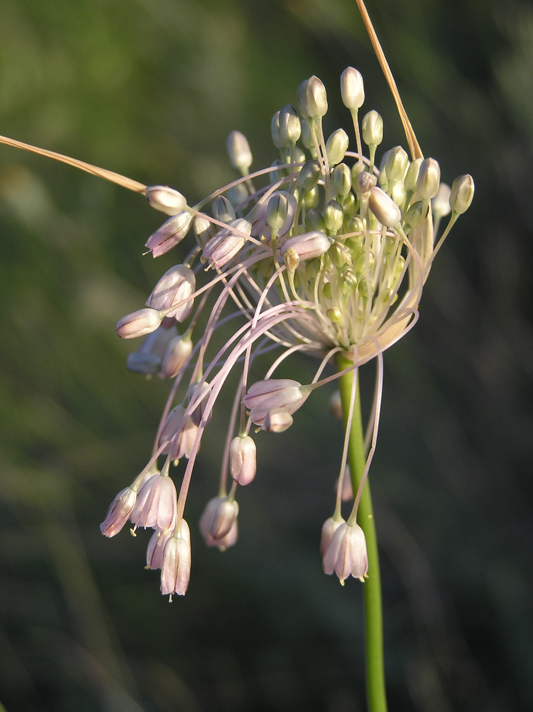 Mediterranean onion (Allium paniculatum L.). Habitat: meadow steppe on a gentle slope with sandy soil. Vicinity of Saratov city, Russia.